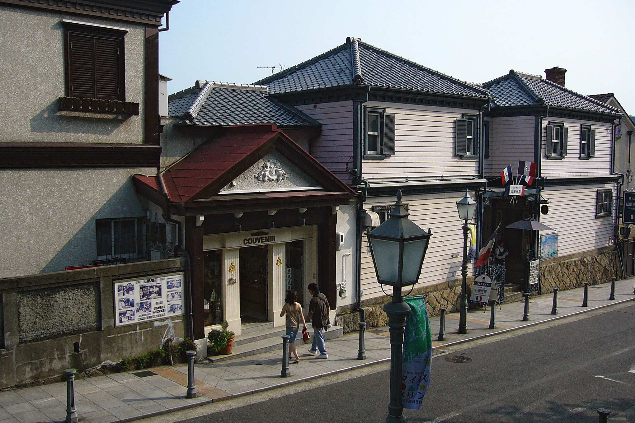 Ben's House and Yokan-Nagaya in Kobe, Hyogo prefecture, Japan